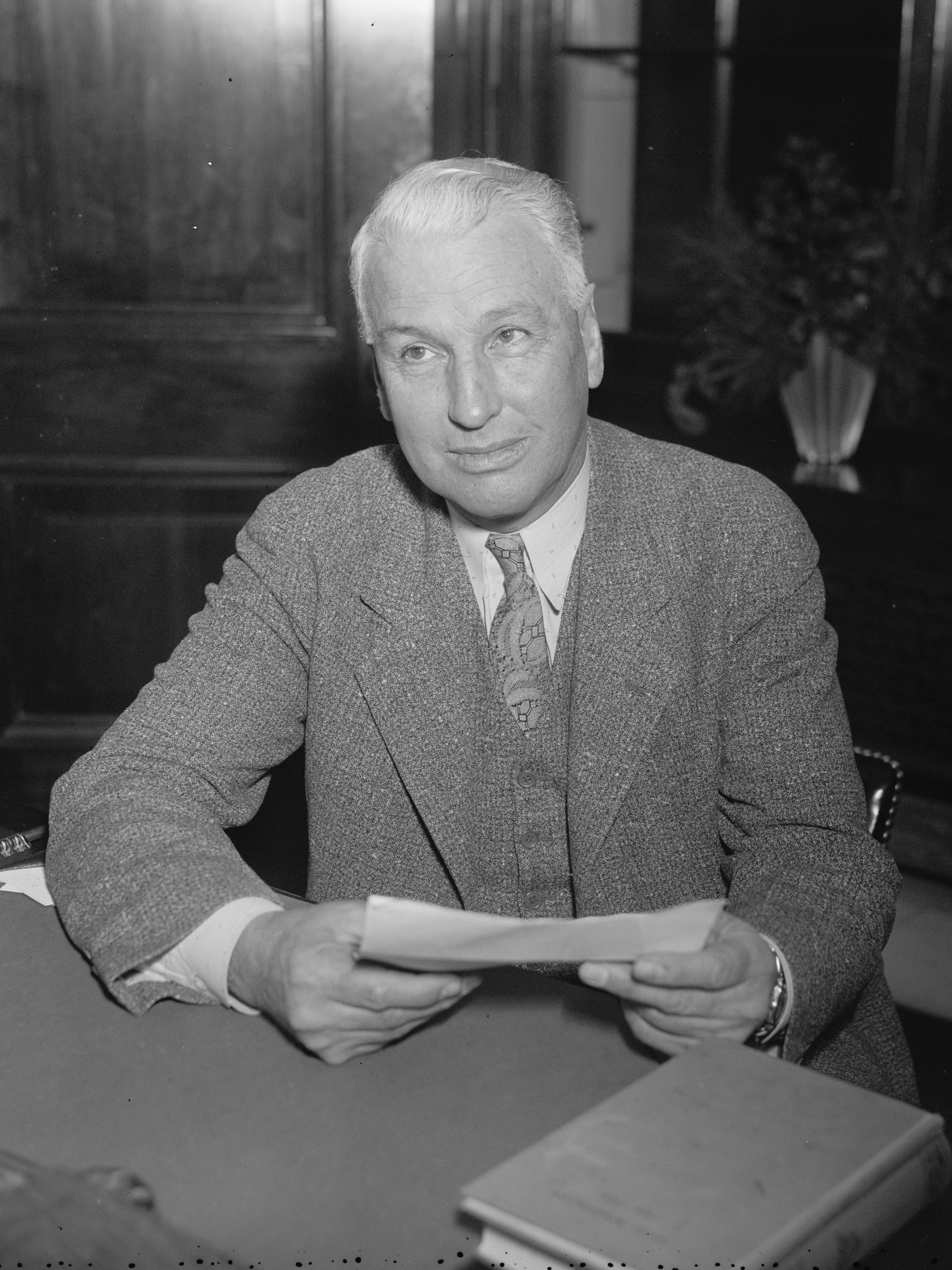 Title: Sen. Guy M. Gillette, La. (Dem.) Abstract/medium: 1 negative : glass ; 4 x 5 in. or smaller